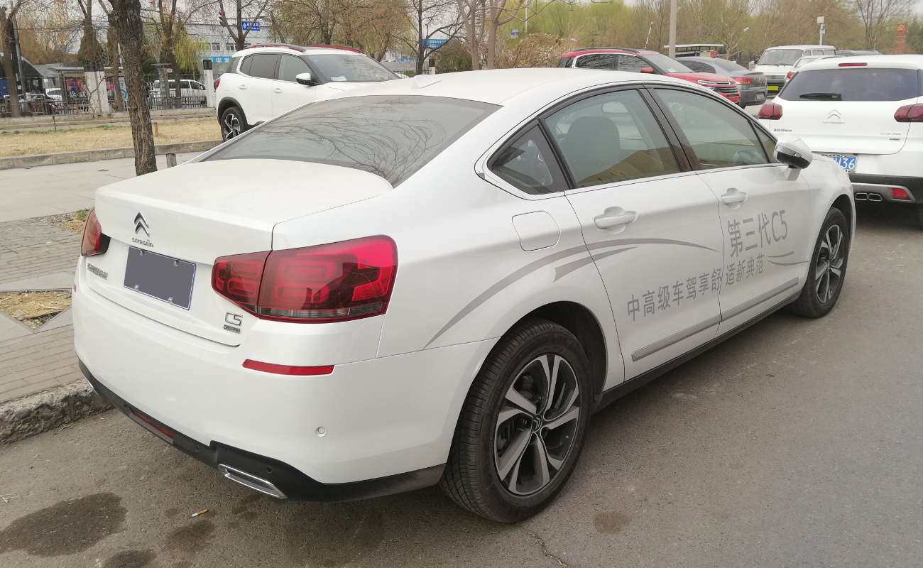 Citroën C5 II CN facelift II photographed in Beijing, China.